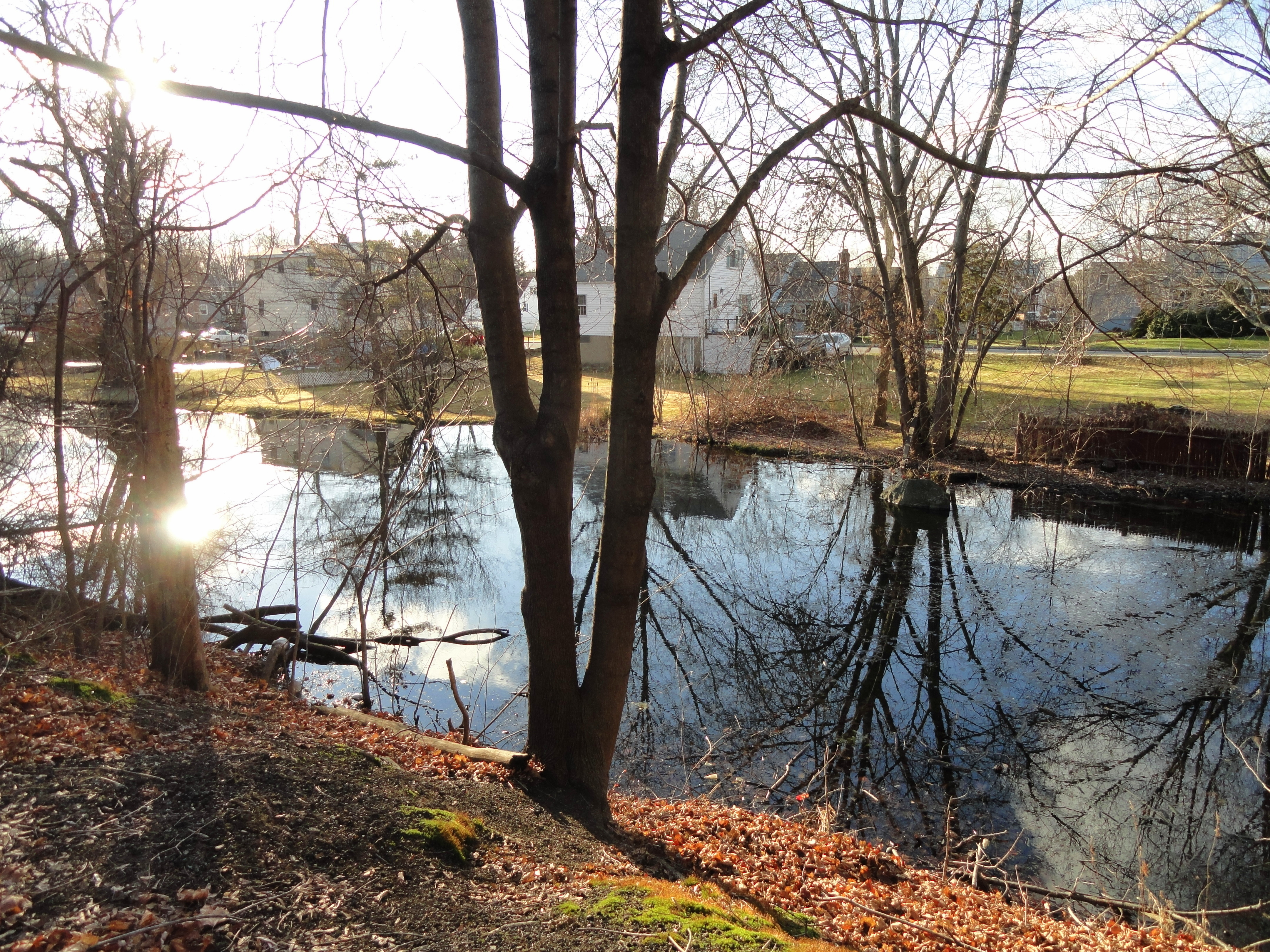 A section of the Middlesex Canal, along Hart Street, Woburn, Massachusetts, USA.